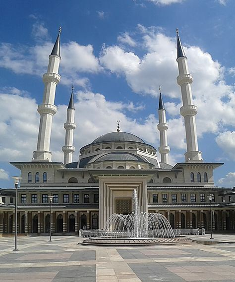 Beştepe Nation Mosque in Ankara.